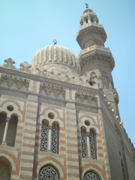 Madrasa of Khawand Baraka Umm al-Sultan al-Ashraf Shaban in Cairo